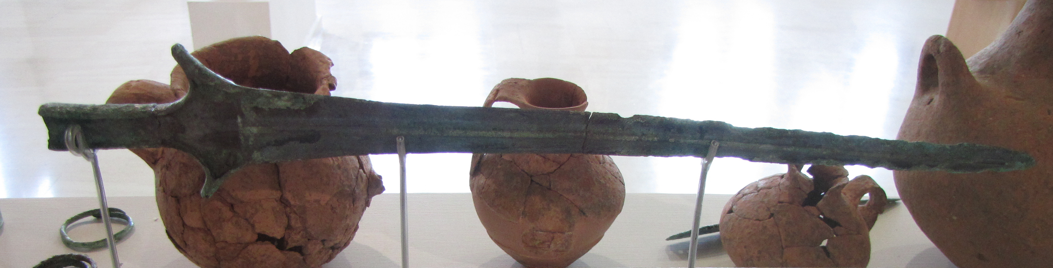 Bronze sword, excavated near Platamonas, Greece